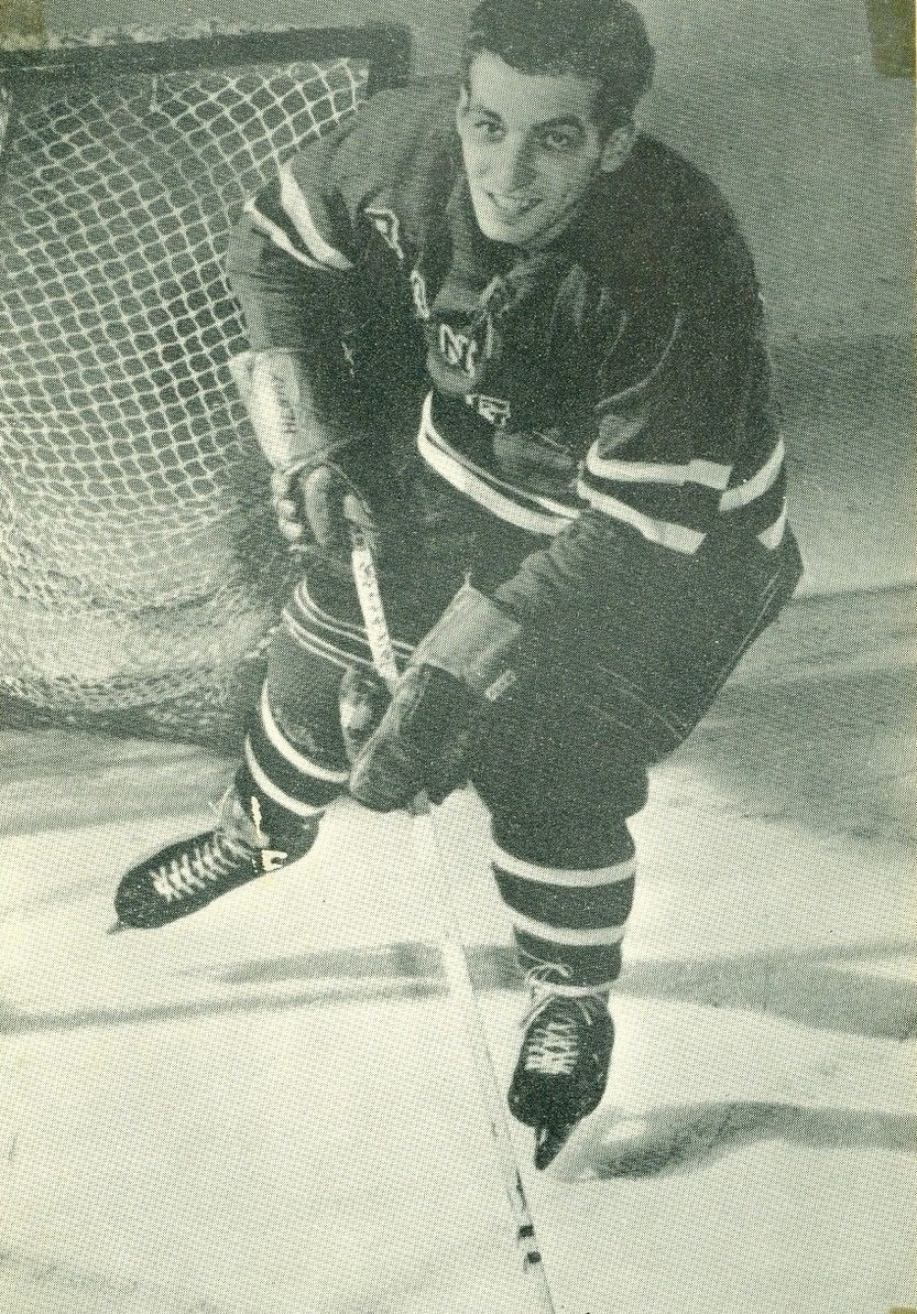 Camille Henry in 1944